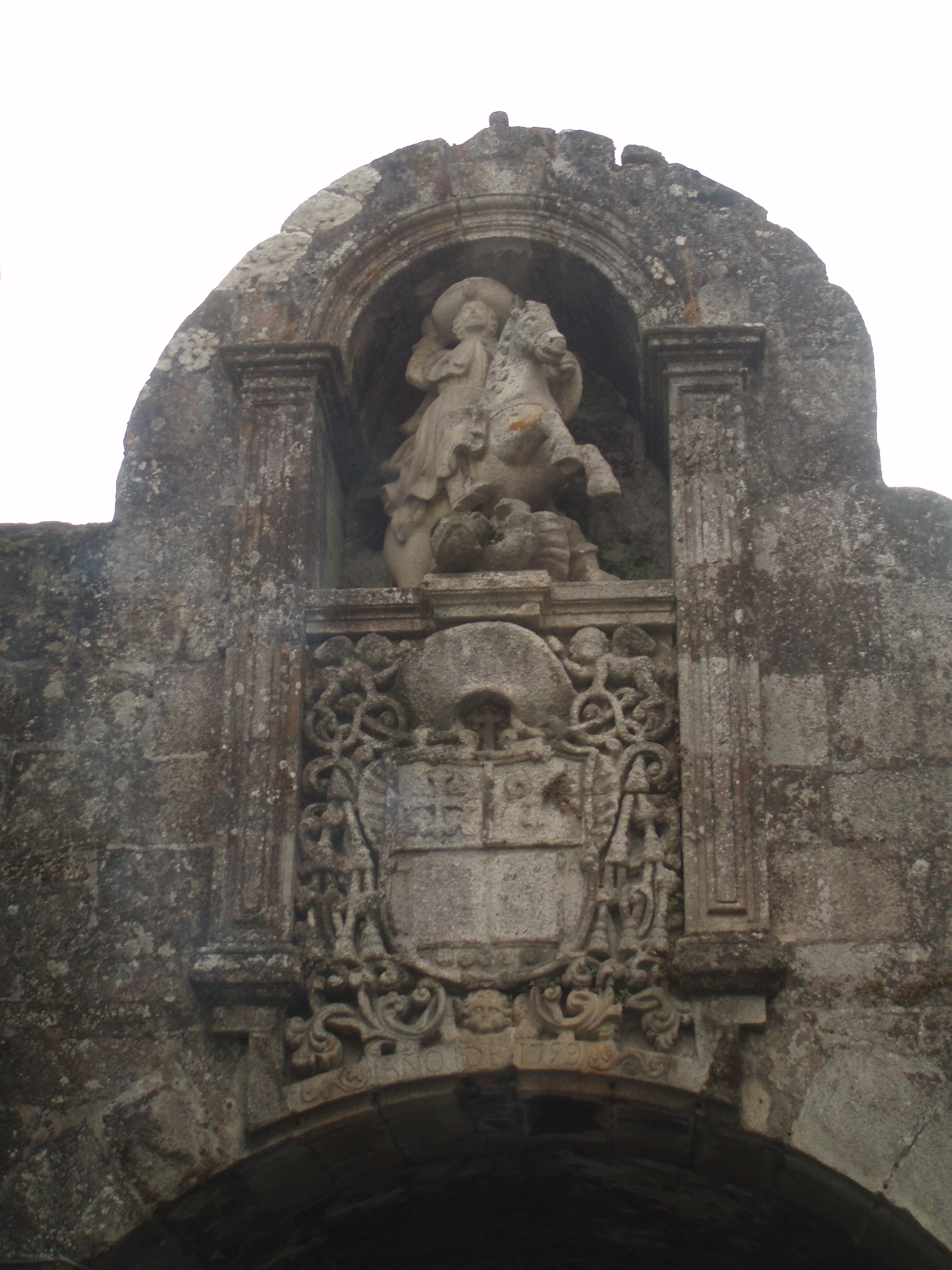 Doors of the roman walls of Lugo. (Spain).